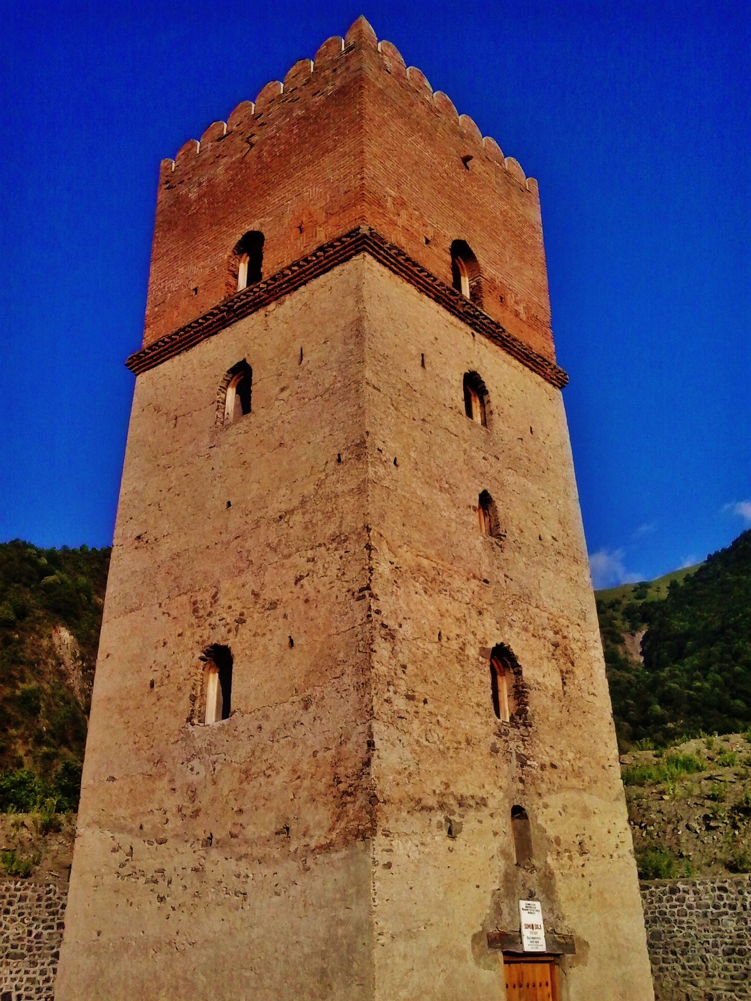 Sumaqqala